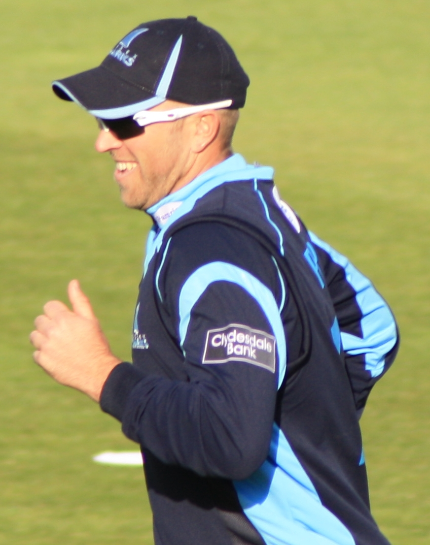 Matt Prior in the field for Sussex during a CB40 against Somerset.